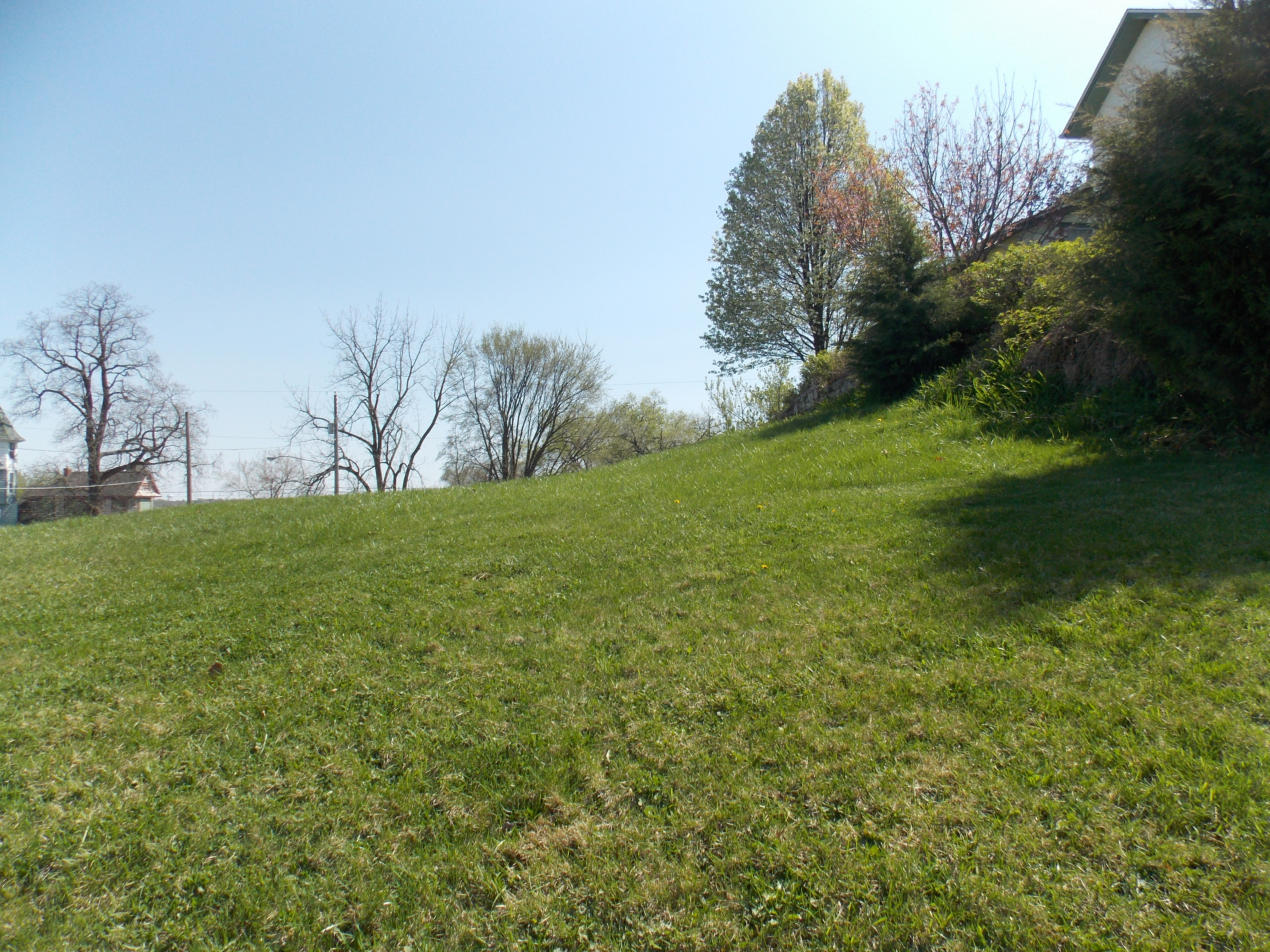 The yard where the Potter-Williams House was located. To the right is where the house was built into the side of the hill. The house was listed on the National Register of Historic Places.